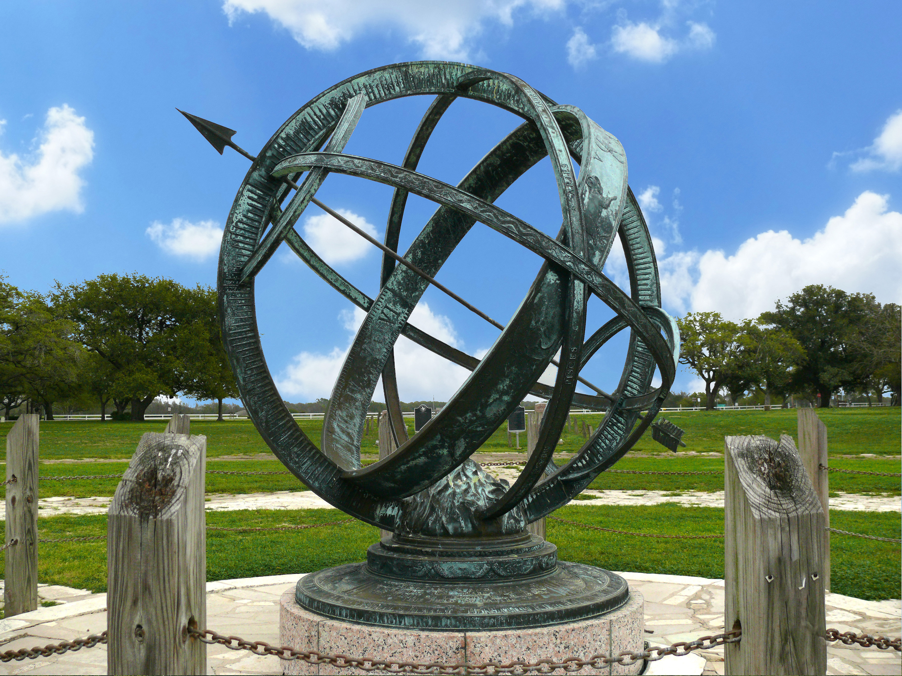 This 6' Armillary Sphere is on the San Jacinto Battleground site. It features the names of the nine fallen Texian soldiers engraved on the sundial's base. According to the San Jacinto Battleground State Historic Site an armillary sphere was a tool used by ancient astronomers and navigators. It depicts the parts of the celestial sphere, in addition to telling time. The rings represent the equator, meridian and equinox. If you go there, take note of the engraved zodiac signs!